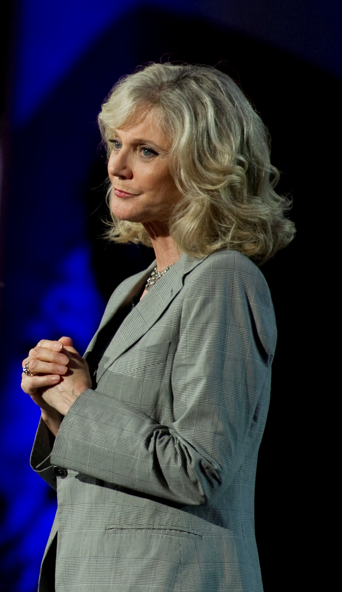 Blythe Danner performing at the National Memorial Day Concert on the West Lawn of the U.S. Capitol in Washington, D.C on May 30, 2010.